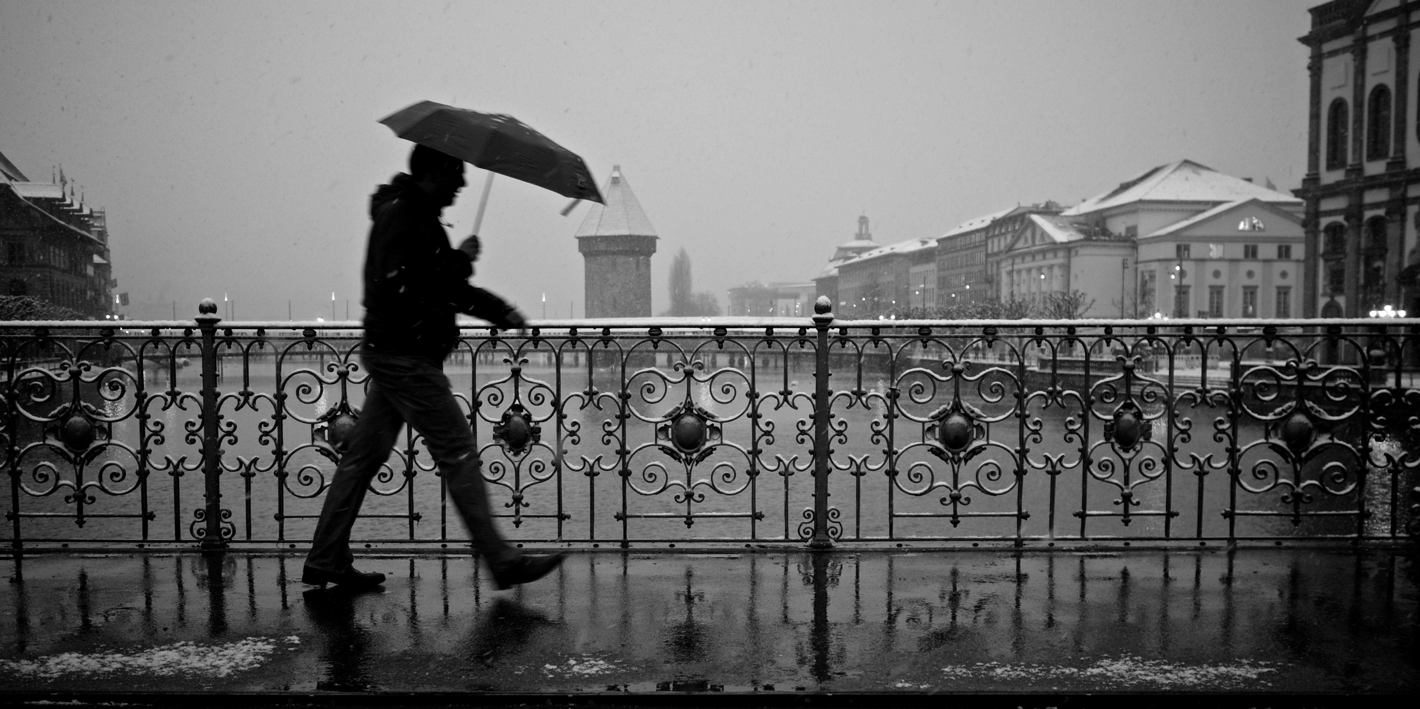 Guy with an umbrella battling rain and snow on a bridge